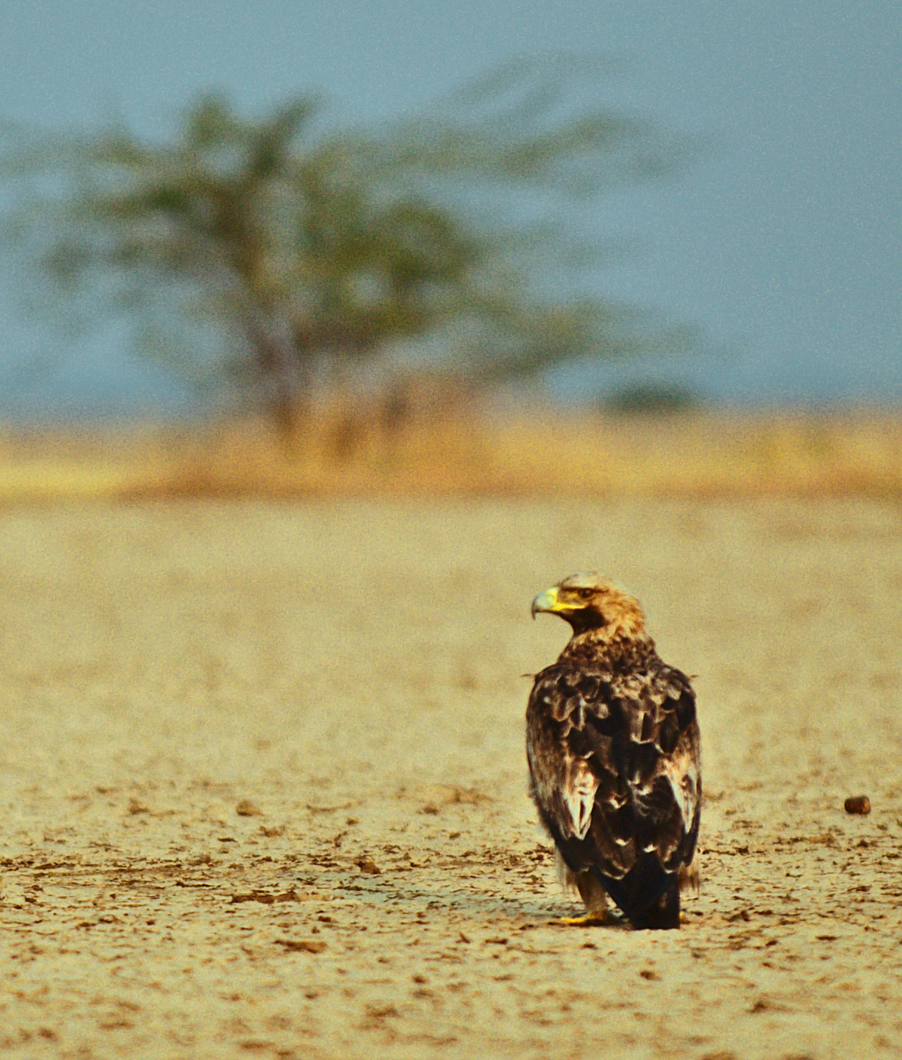 Eastern Imperial Eagle Aquila heliaca in the Little Rann of Kutch.